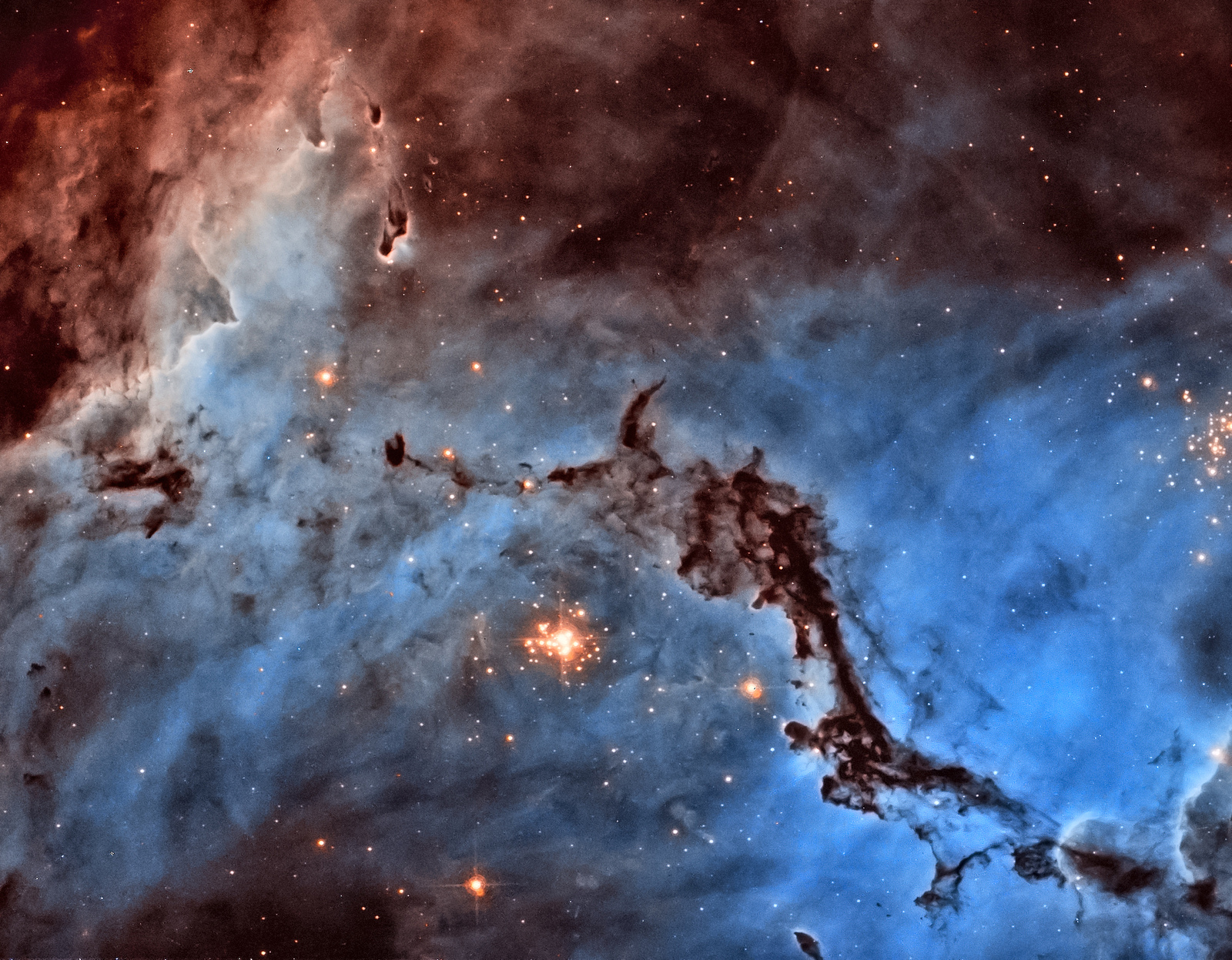 NGC 1763 NGC 1763, processed by Josh Lake, winner of the first prize in the Hubble's Hidden Treasures Image Processing Competition ( Credit: NASA, ESA and J. Lake .